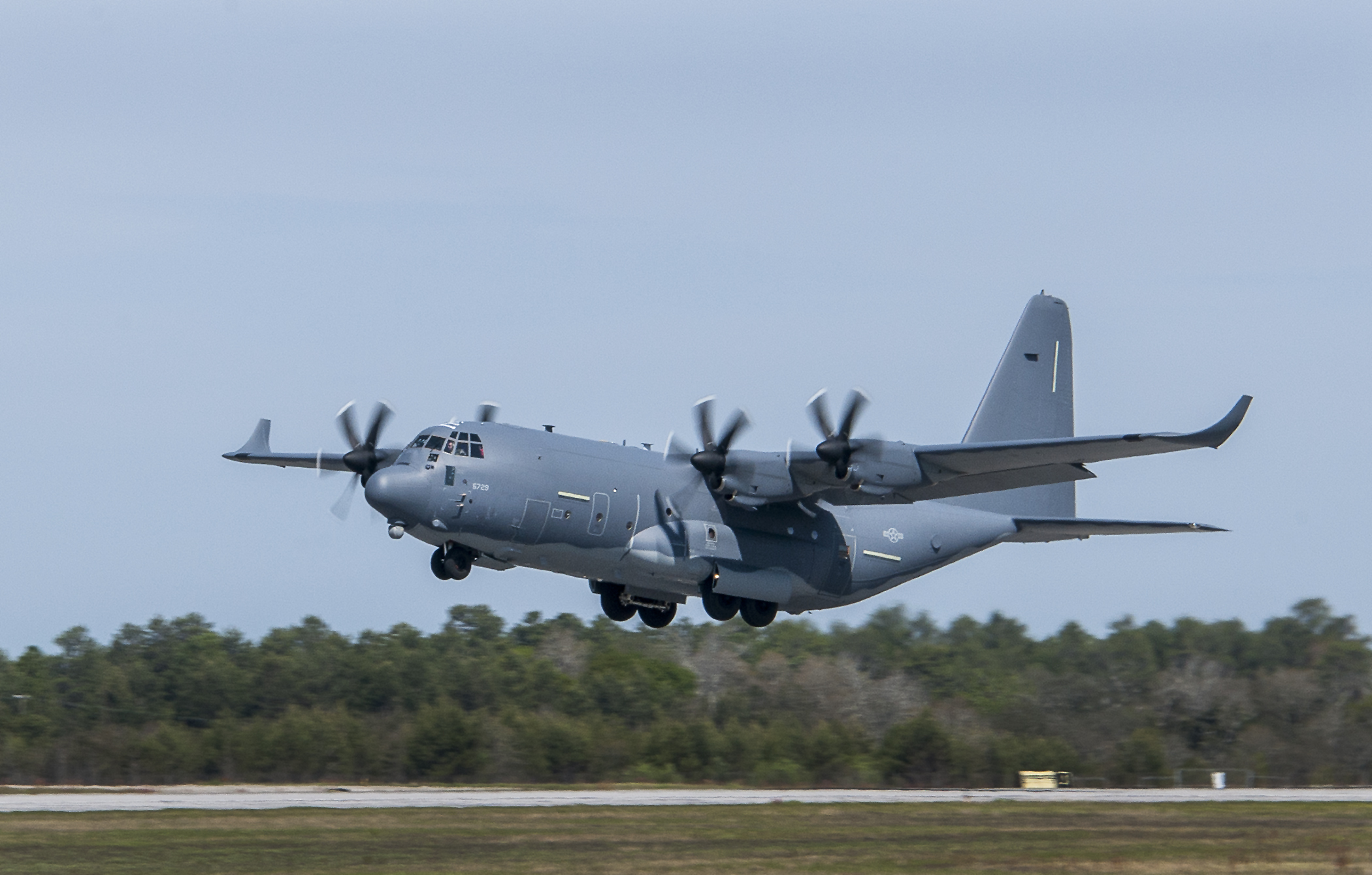 A U.S. Air Force Lockheed Martin MC-130J Commando II (s/n 11-5729) lifts off from Eglin Air Force Base, Florida (USA), for a test mission. The aircraft was fitted with vertical fins on each wing, called winglets. The 413th Flight Test Squadron aircrew and engineers tested the modified aircraft over eight flights. The goal of the tests was to collect data on possible fuel efficiency improvements and performance with the winglets and lift distribution control system installed.